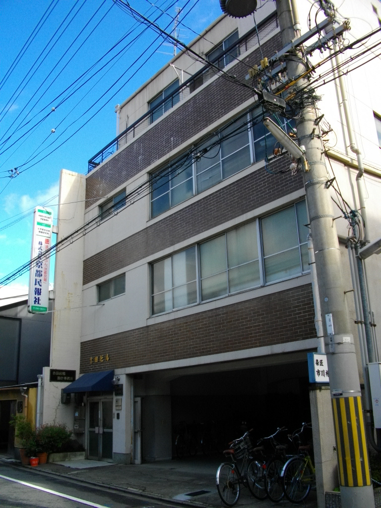 Kyoto Minpo-Sha Building